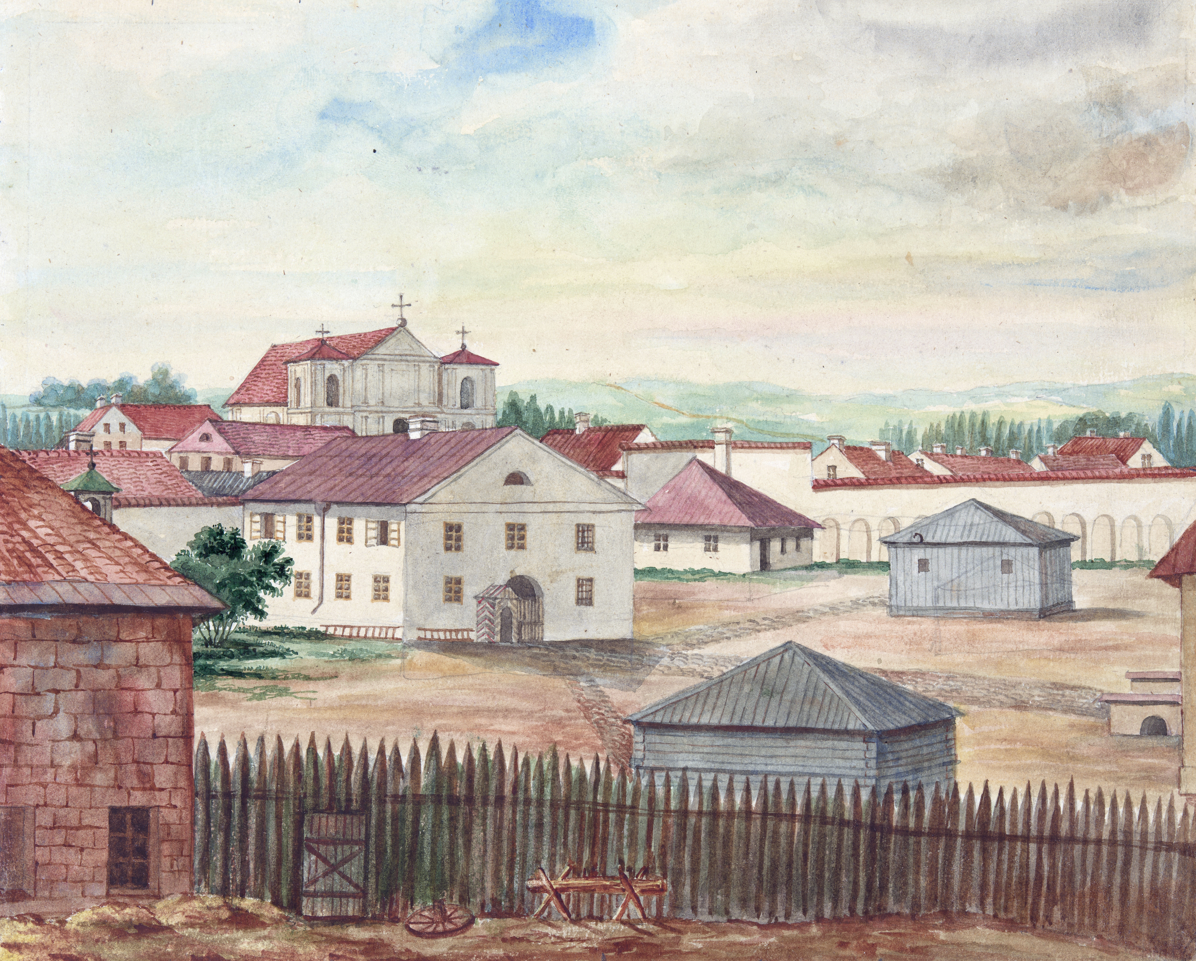 Catholic church of Mother of God of the Rosary in Horadnia, N. Orda